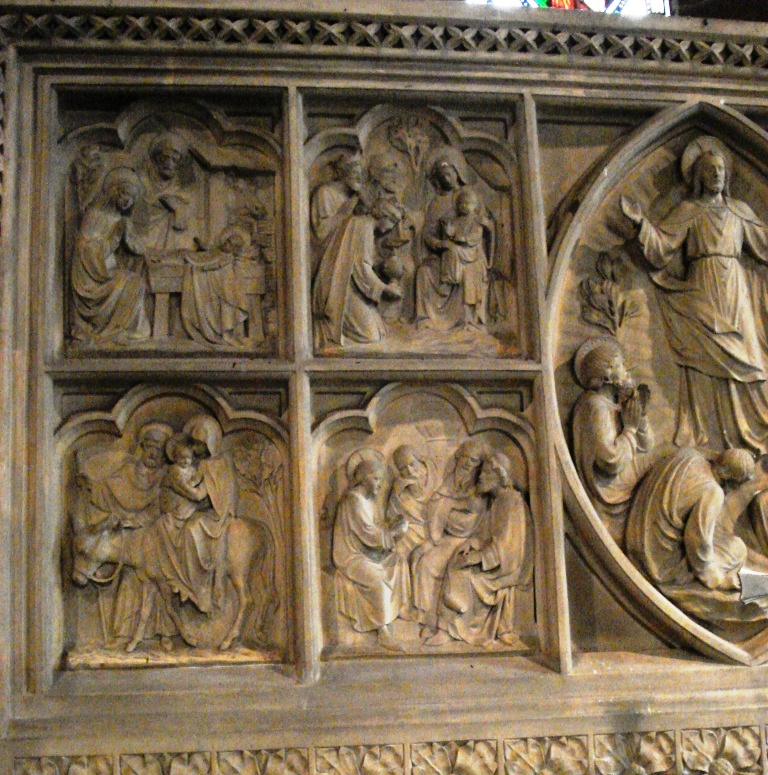 Left hand side of reredos in St Giles' Church, Haughton, Staffordshire. Carved by Nathaniel Hitch. The theme is the Nativity